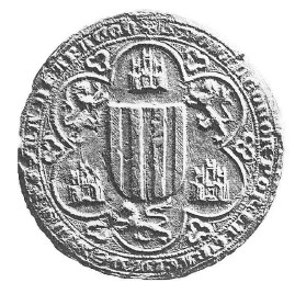 Stamp of the queen Eleanor of Castile (1307-1359), daughter of Ferdinand IV of Castile and wife of the king Alfonso IV of Aragon.